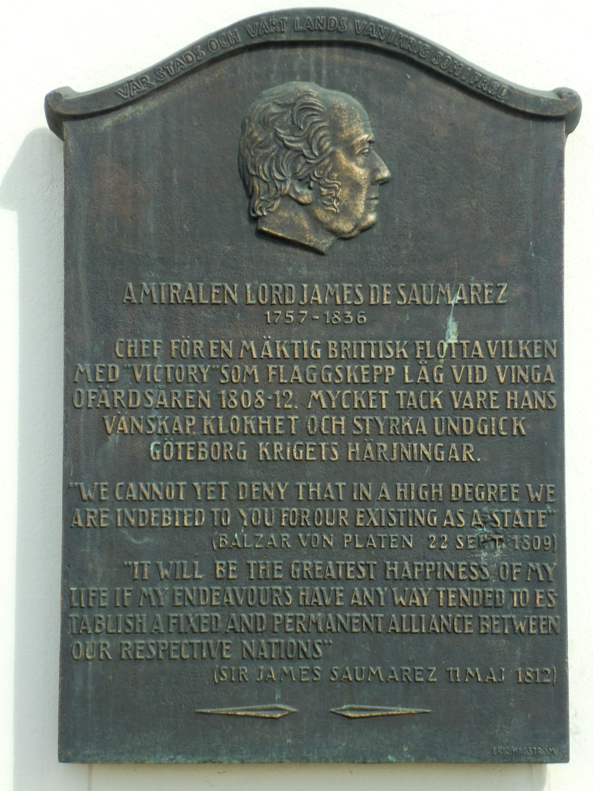 Commemorative plaque located near the entrance of Gothenburg city hall, Sweden, honoring the achievements of admiral James Saumarez during the Napoleonic war 1808-1812. The inscription on the upper frame reads in translation: A friend of our city and our country in war and peace. The swedish inscription below the profile and name reads in translation: Commander of a powerful brittish naval force with "Victory" as flagship who was located at Vinga during the evil years 1808-12. In many ways thanks to his friendship, wisdom and strenght Gothenburg avoided the calamities of war. Letter correspondence with swedish admiral Balzar von Platen follows further down.